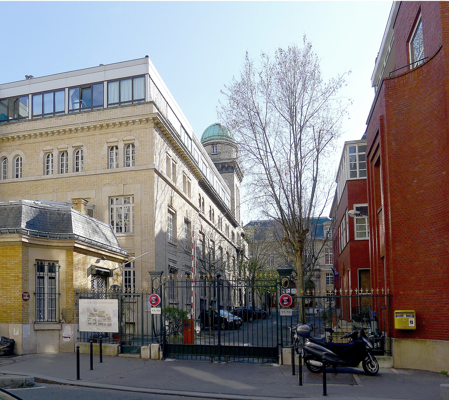 Pierre-et-Marie-Curie street - Paris